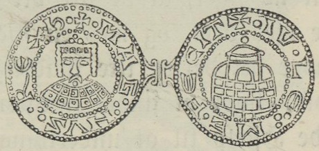 Coin of Magnus the Good minted in Denmark.